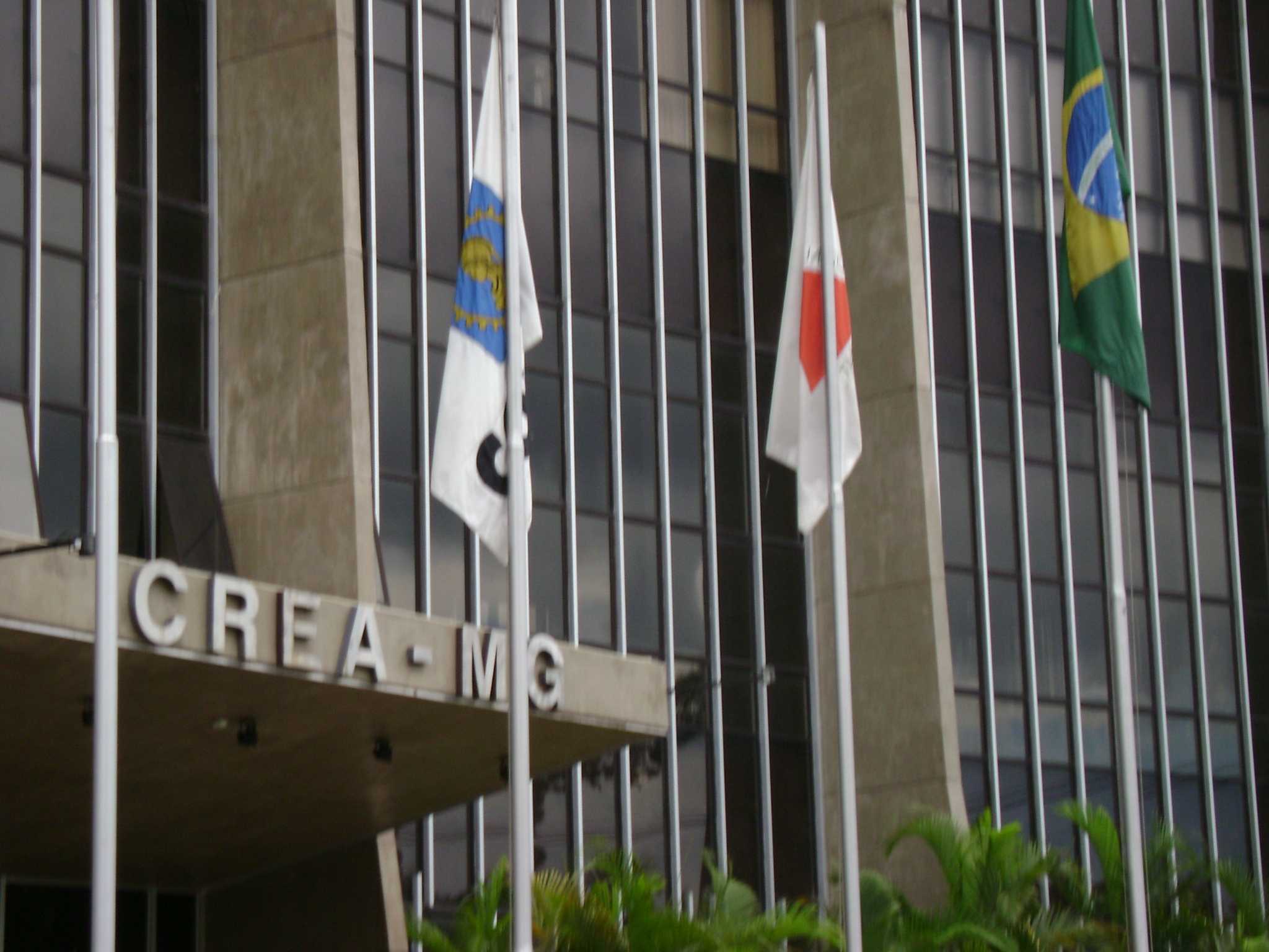 Entrada do CREA, em Belo Horizonte.